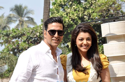 Akshay & Kajal Aggarwal promote 'Special 26'